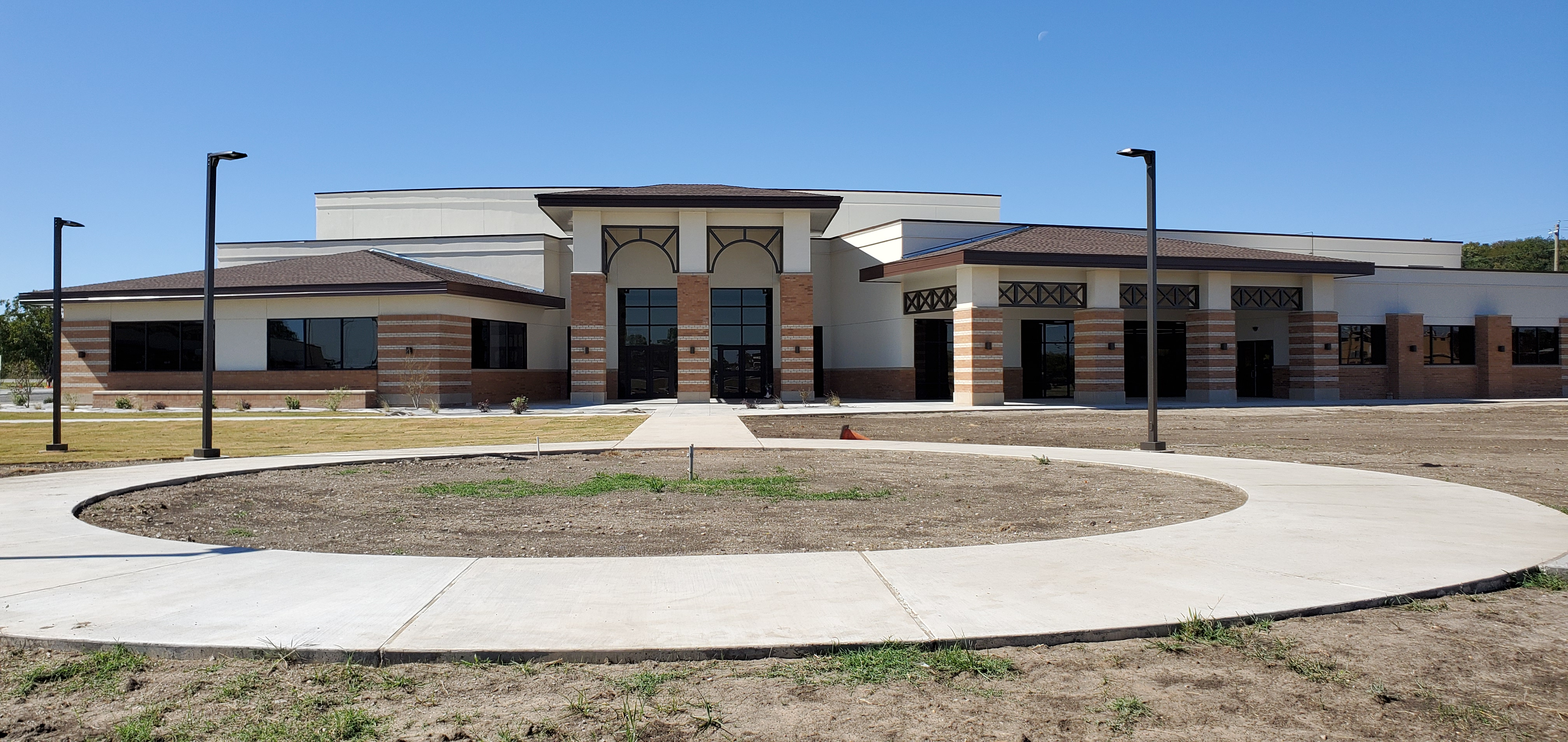 This is the newly completed cafetorium at Ranger College.